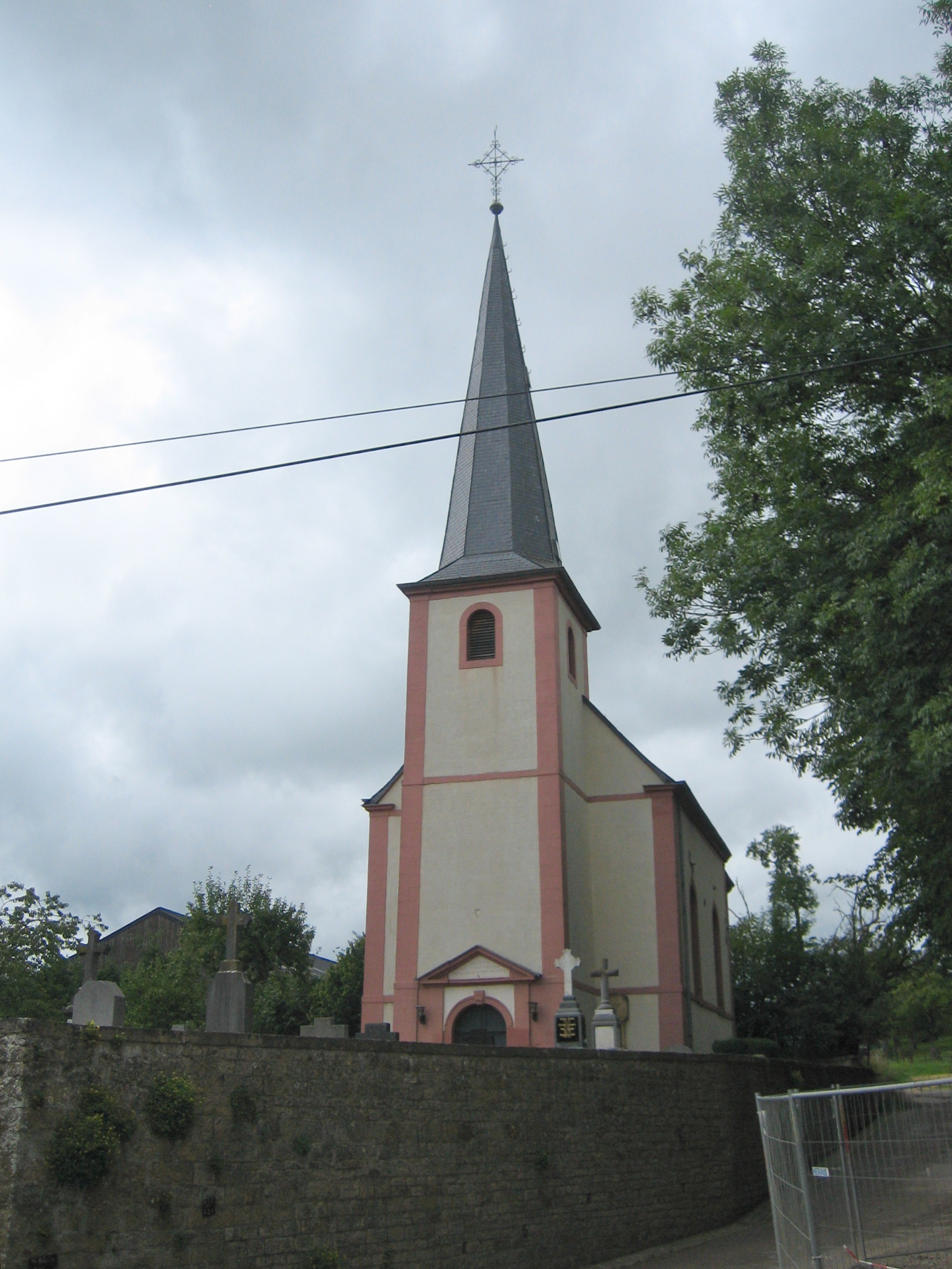 Church of Rodenbourg, Luxembourg. Classified as National Monument since 13 November 2009 on the List of cultural heritage monuments.